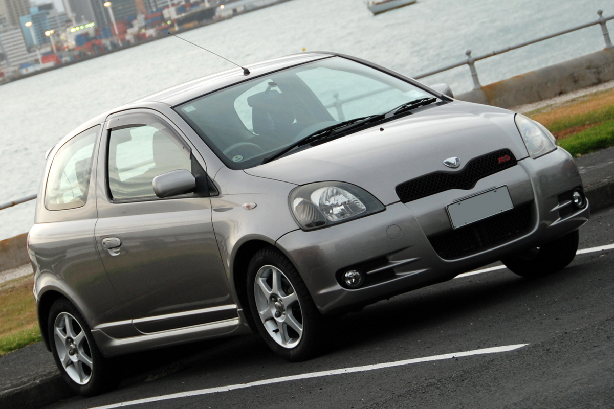 2001 Toyota Vitz RS (NCP13), photographed in Devonport, Auckland, New Zealand.